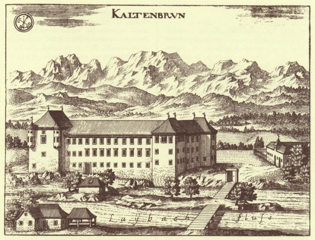 Figure Fužine castle (Slovenia) with a bridge in the foreground - Janez Vajkard Valvazor Technique: Copper engraving